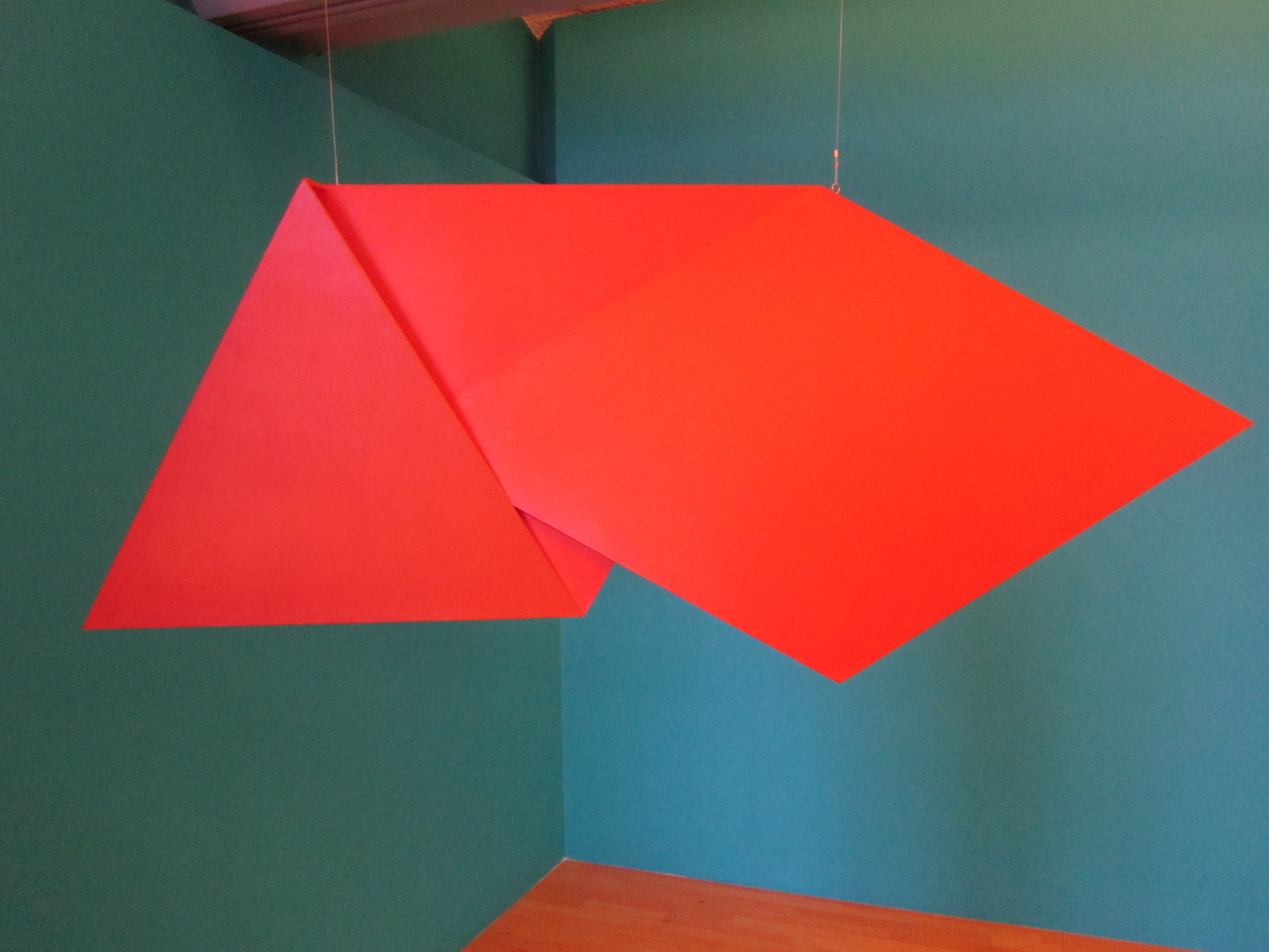 Spatial Relief (red) REL 036 by Hélio Oiticica at the Tate Liverpool, England.